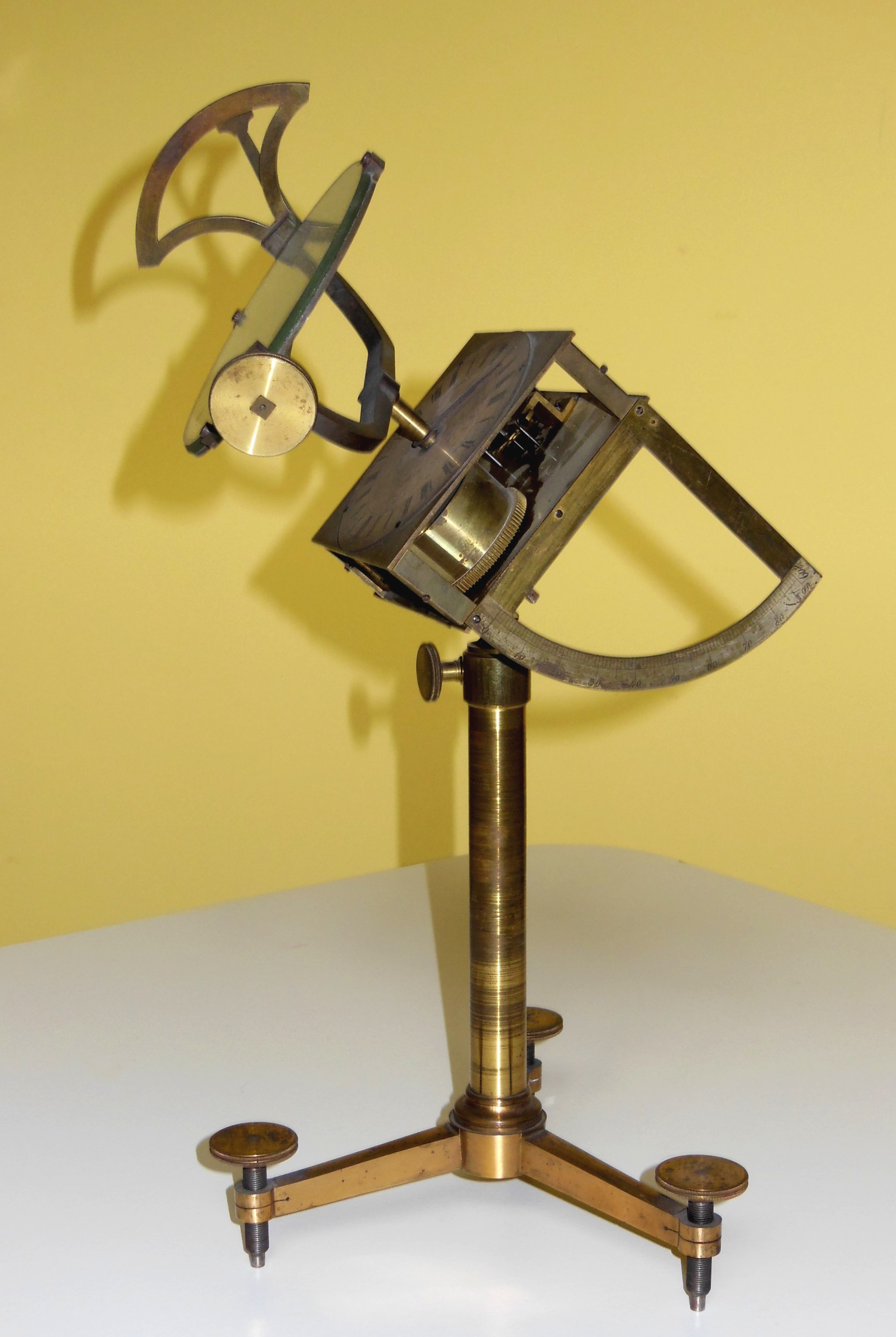 Heliostat by the Viennese scientific instrument maker Johann Michael Ekling (ca. 1850)